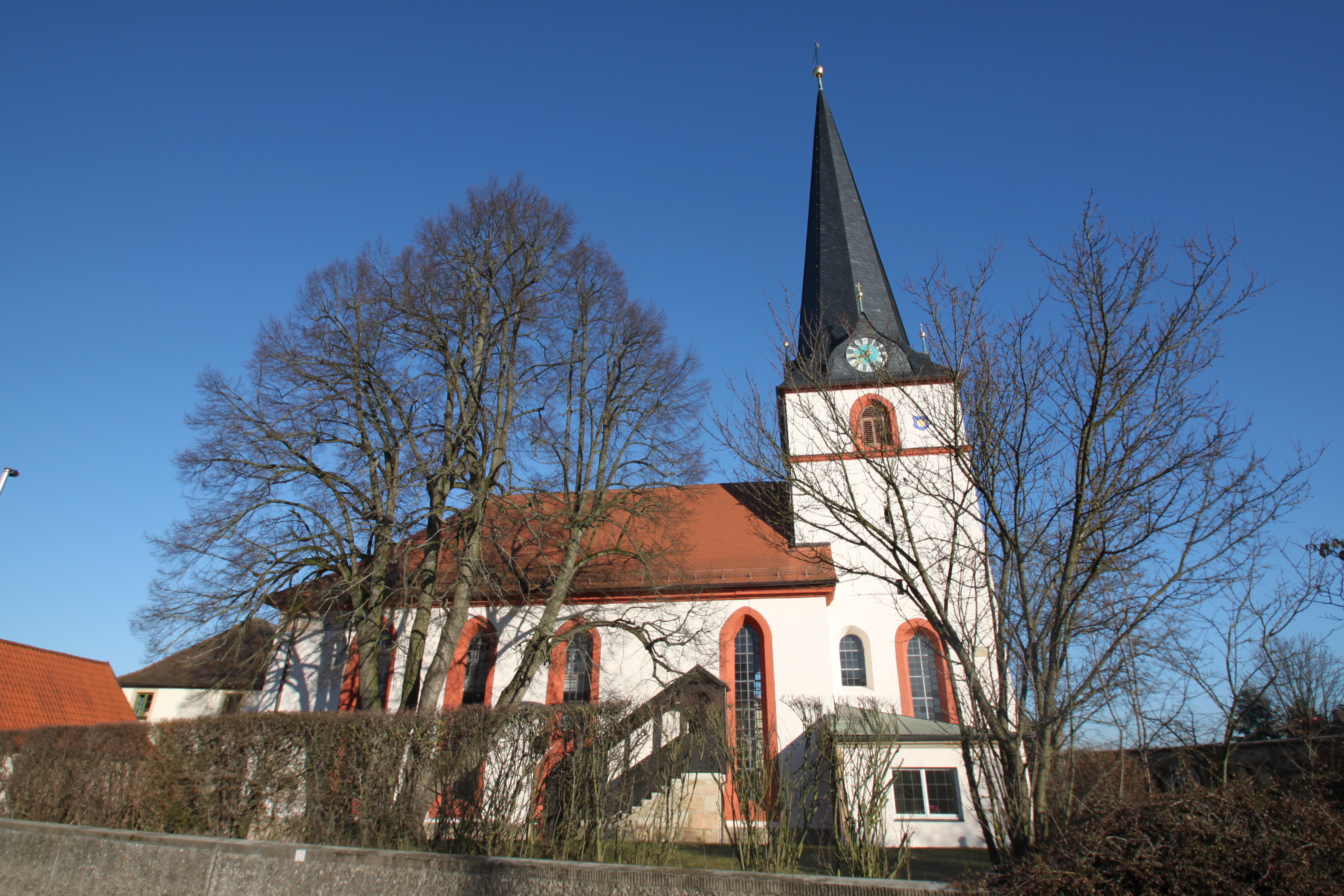 Church St. Aegidius in Melkendorf district of Kulmbach